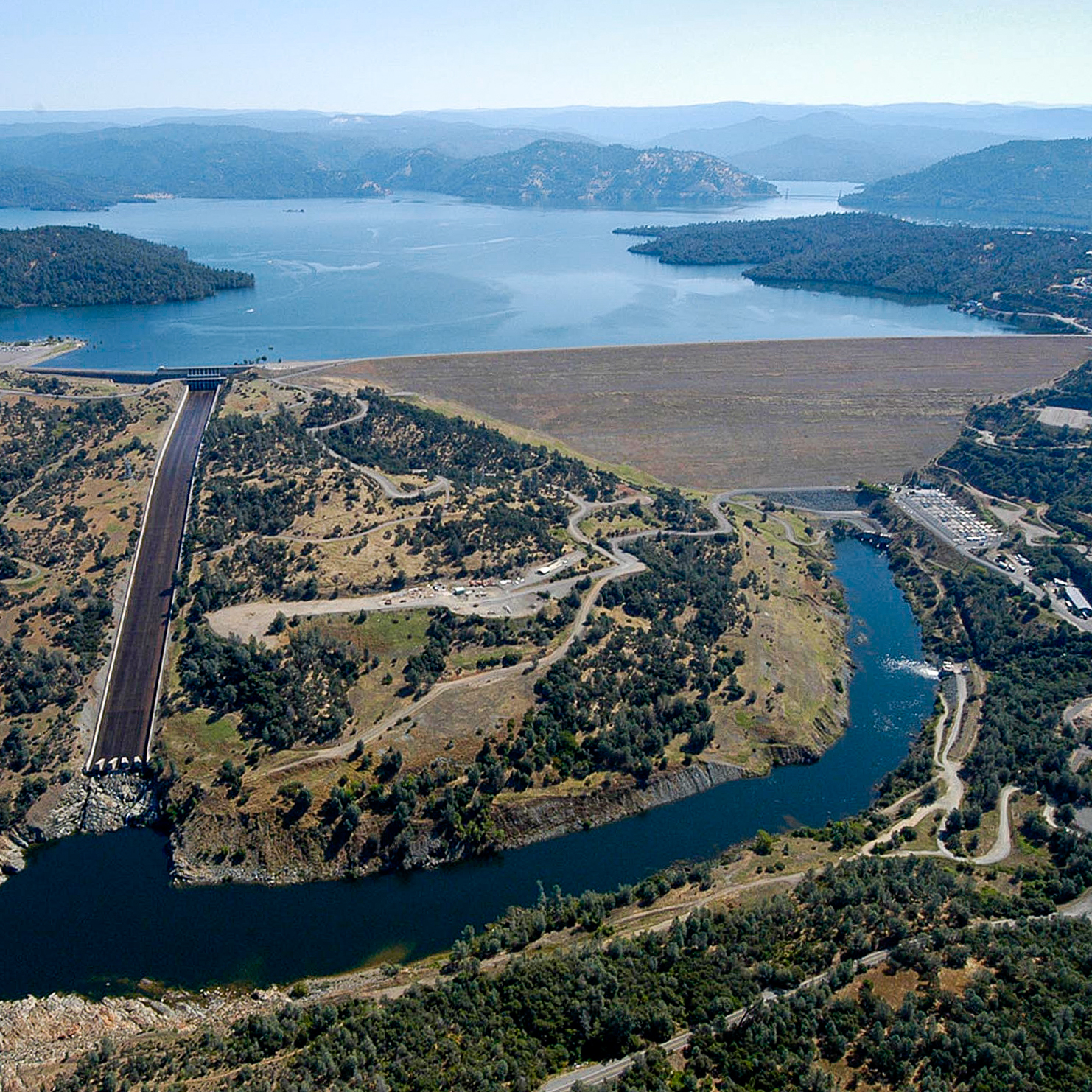 Oroville Dam and Lake Oroville reservoir from the air, within the Lake Oroville State Recreation Area, northern California. High water.